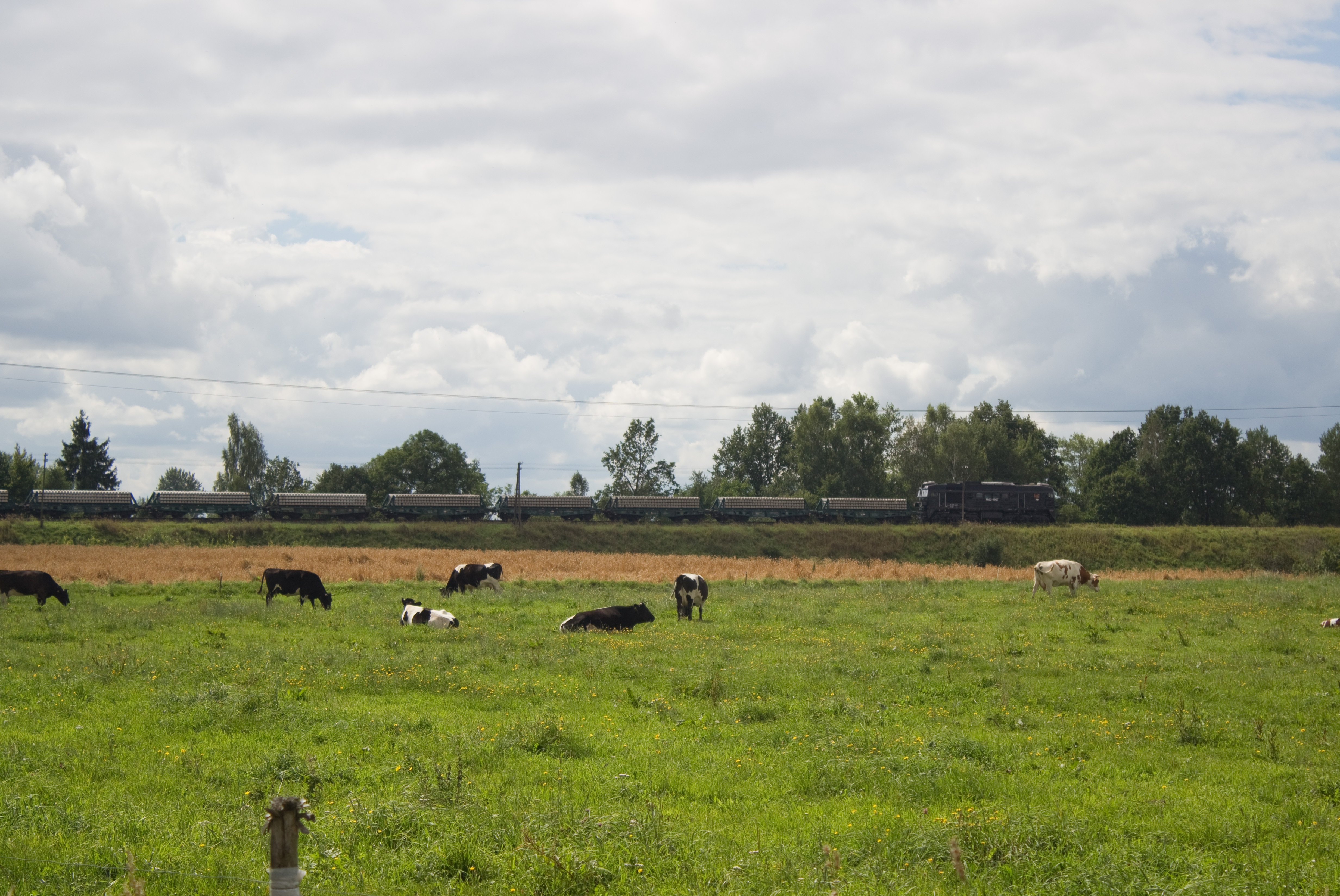 Cimochy, gmina Wieliczki, powiat olecki, Warmian-Masurian Voivodeship